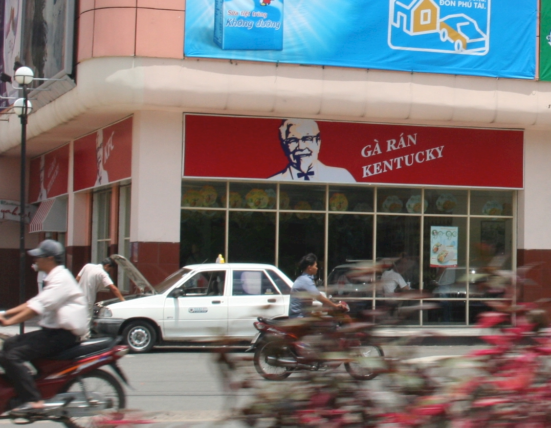 Gà Rán Kentucky, KFC Kentucky Fried Chiken, United States fast food in Vietnam. Ho Chi Minh City, Vietnam, taken Jun 2005. Photographer Roderick Divilbiss